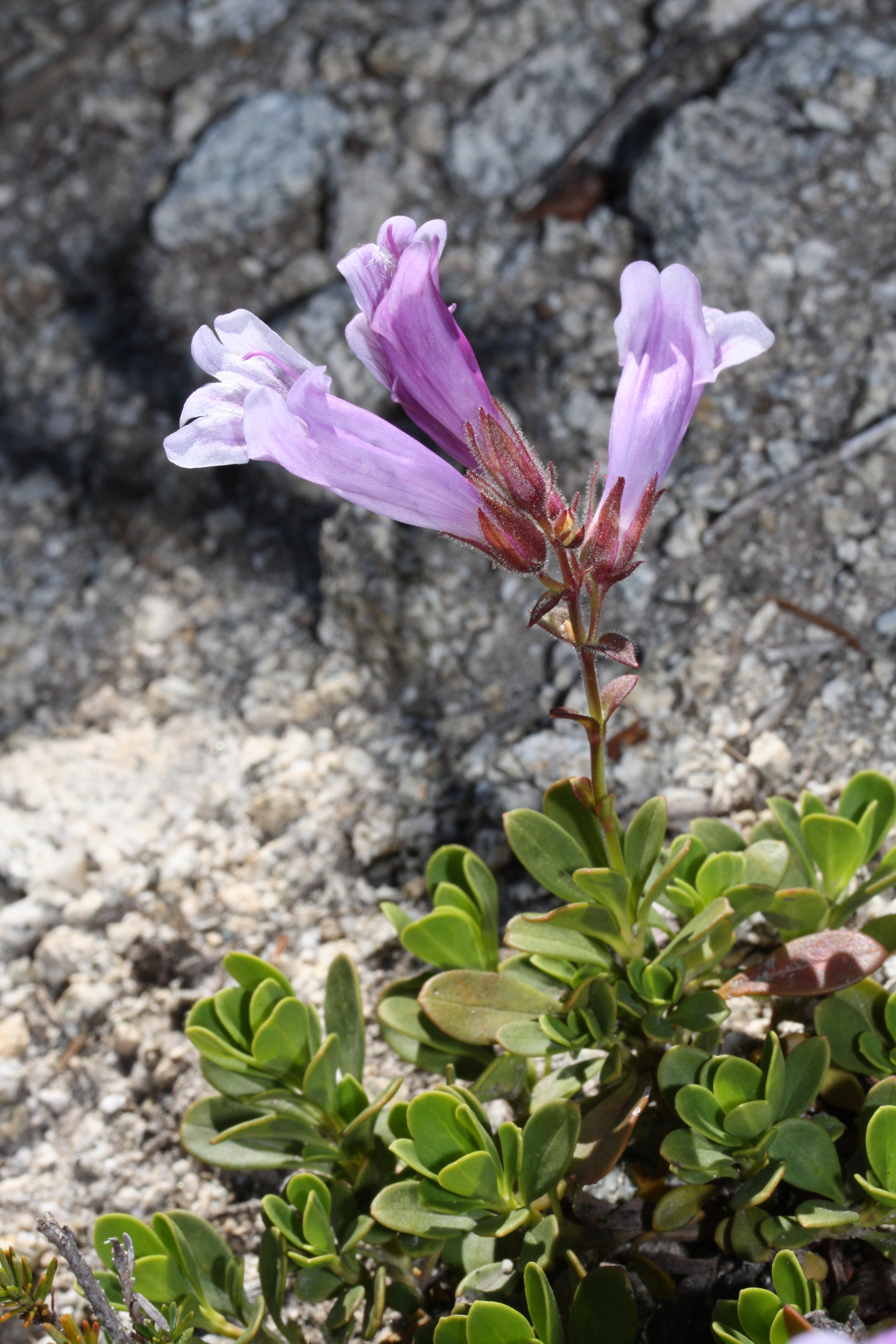 Davidson's Penstemon